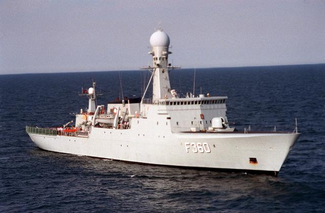 A starboard bow view of the Royal Danish navy frigate HDMS HVIDBJØRNEN (F-360) during exercise BALTOPS '93.